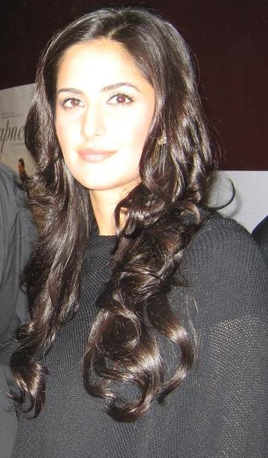 Katrina Kaif, to an Indian Kashmiri Father and British mother, at Feltham '07